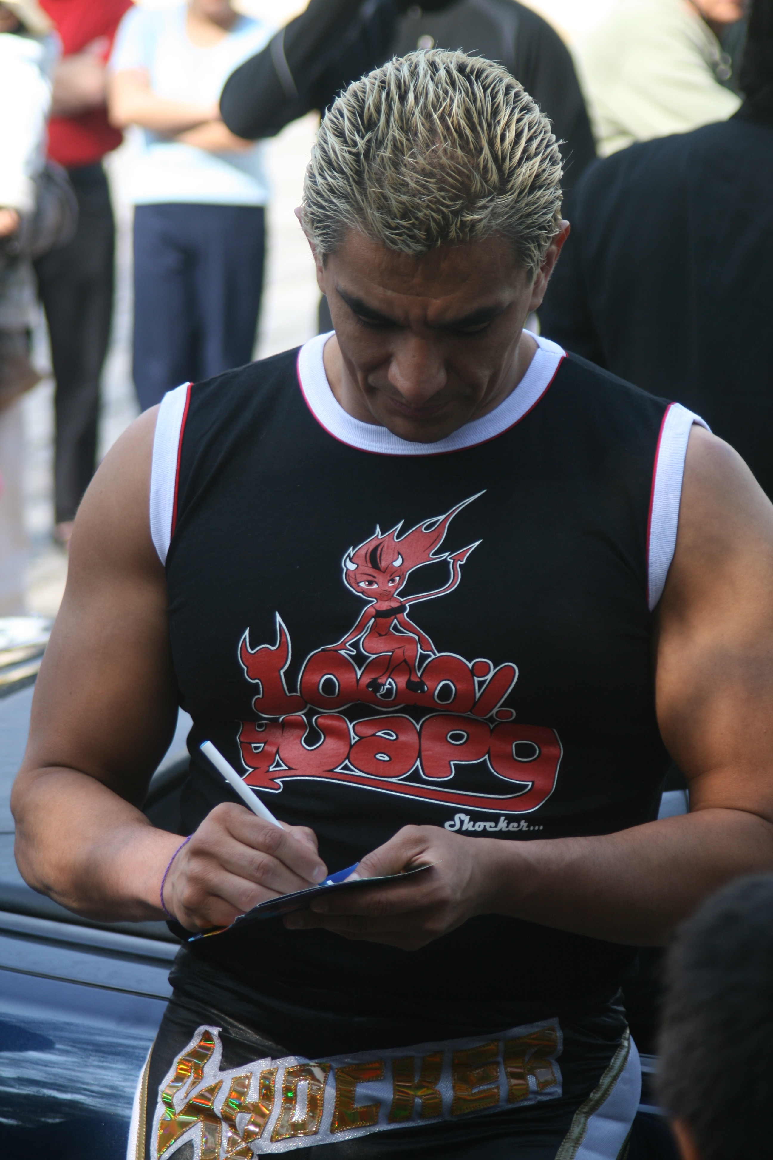 wrestling is hugely popular in Mexico. This wrestler was signing autographs in a small parade near the Zona Rosa.